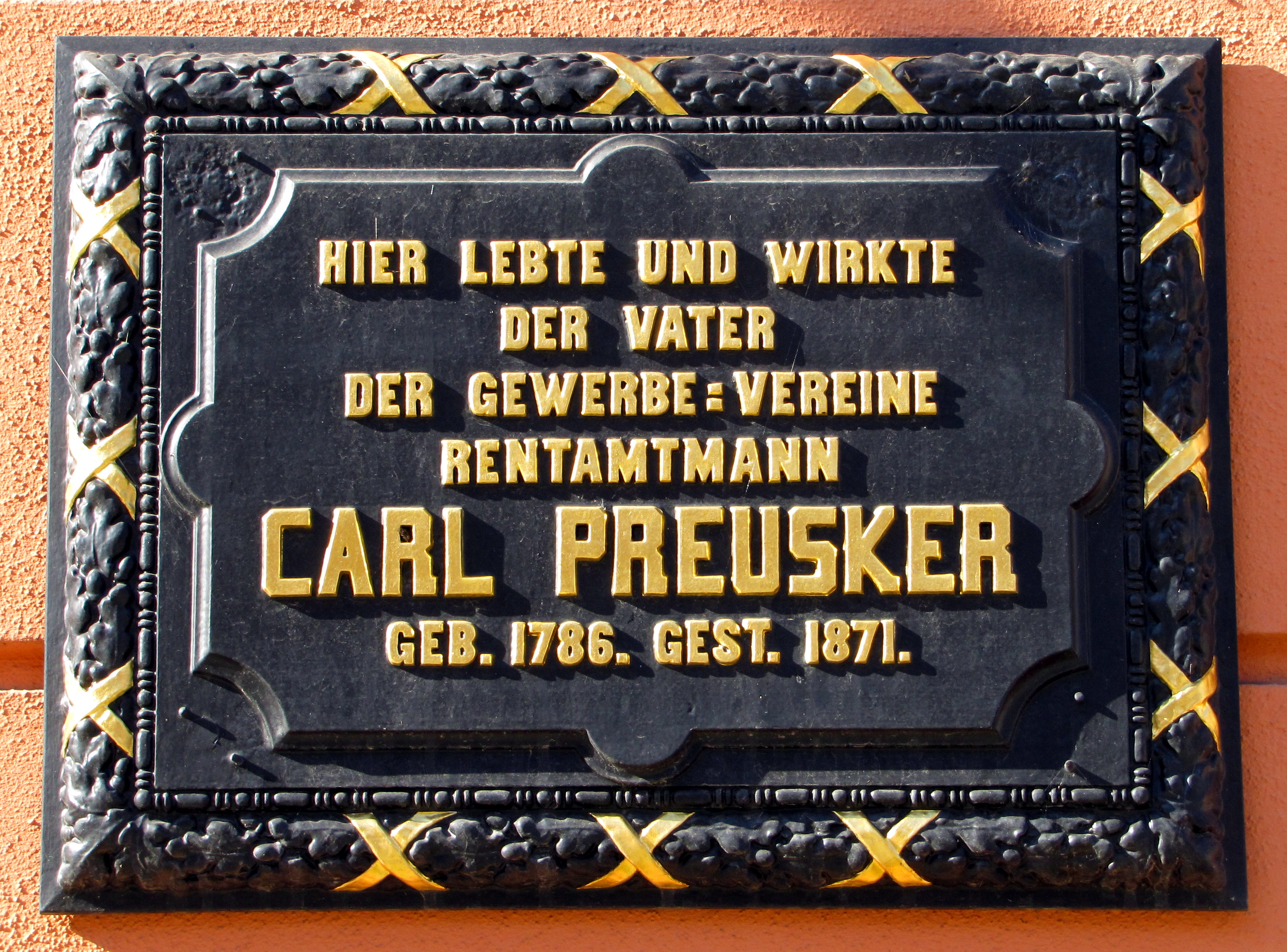 Plaque commemorating Karl Preusker on the Karl-Preusker-Bücherei, Großenhain, Saxony